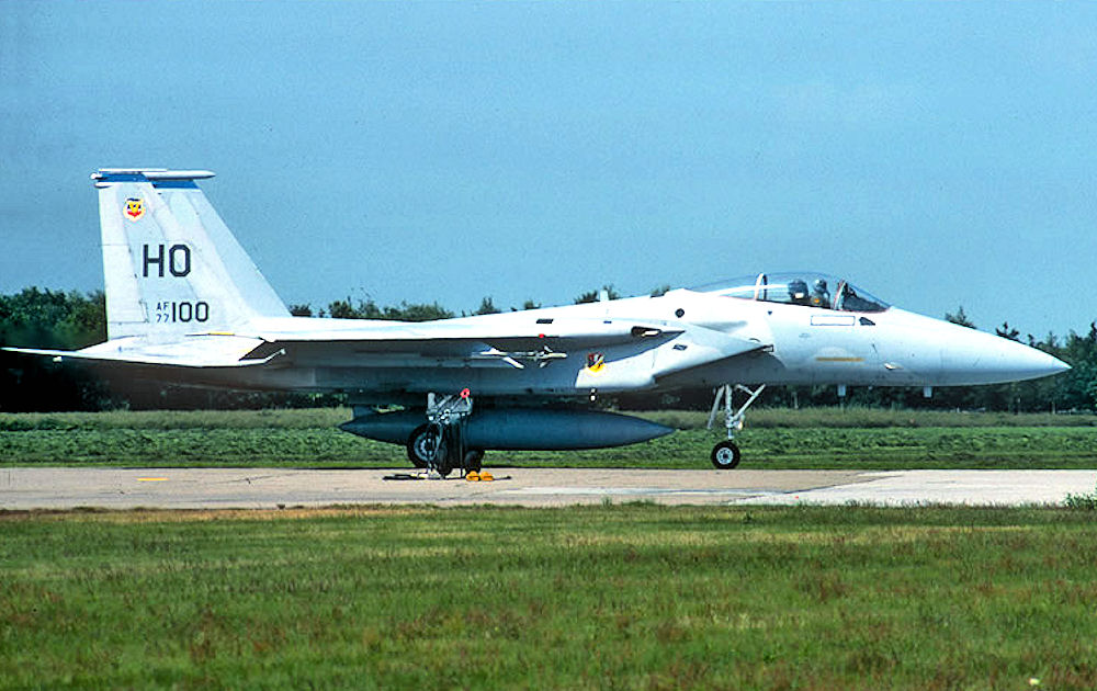 7th Tactical Fighter Squadron, 49th Tactical Fighter Wing McDonnell Douglas F-15A-19-MC Eagle 77-0100